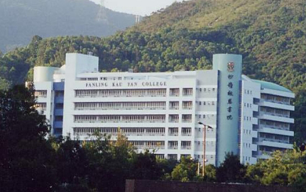 It is the school building of a Hong Kong secondary school which is called FKYC